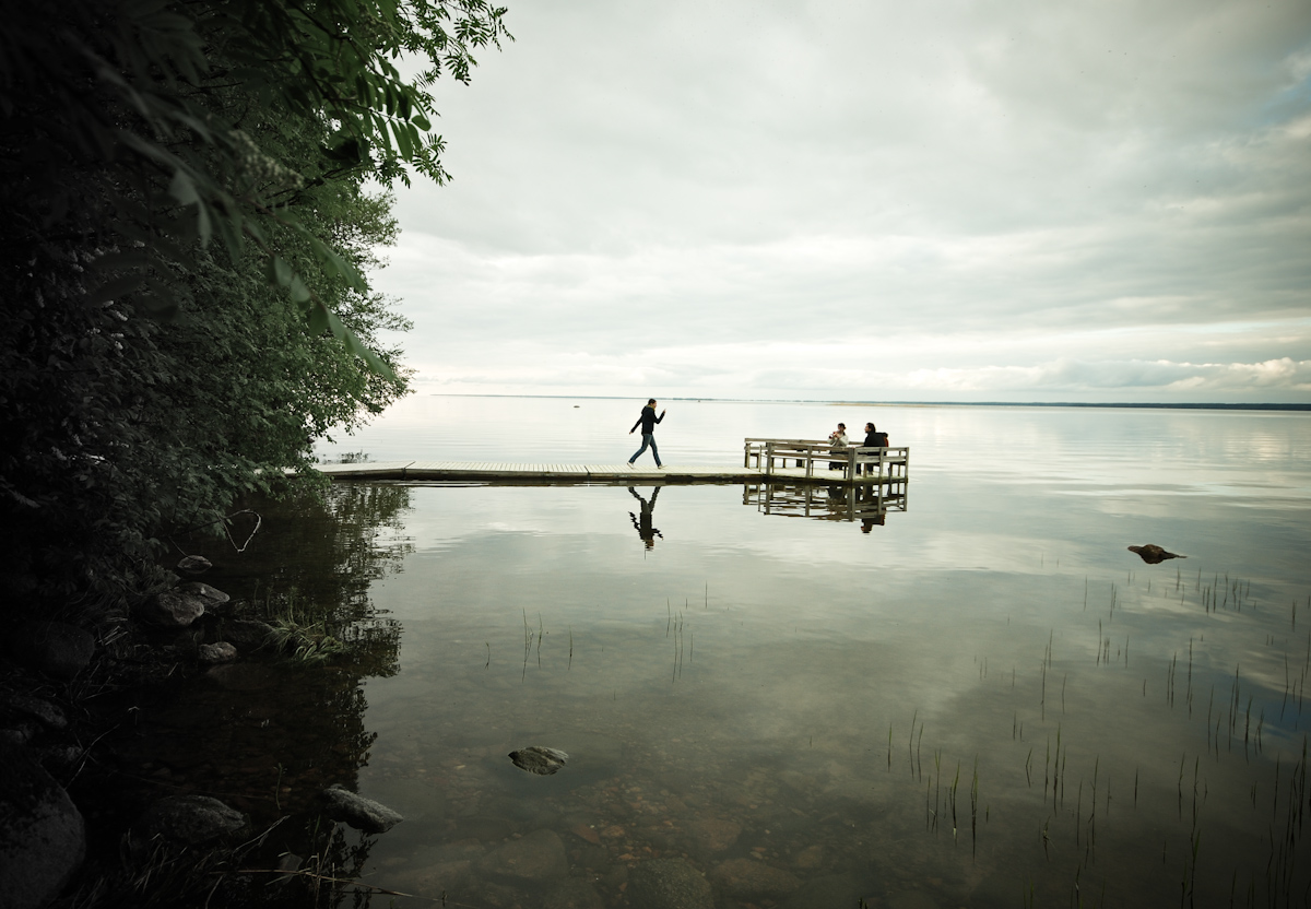 Still water, lack of wind, all for a calm moment at Lake Pyhäjärvi in Säkylä, Finland